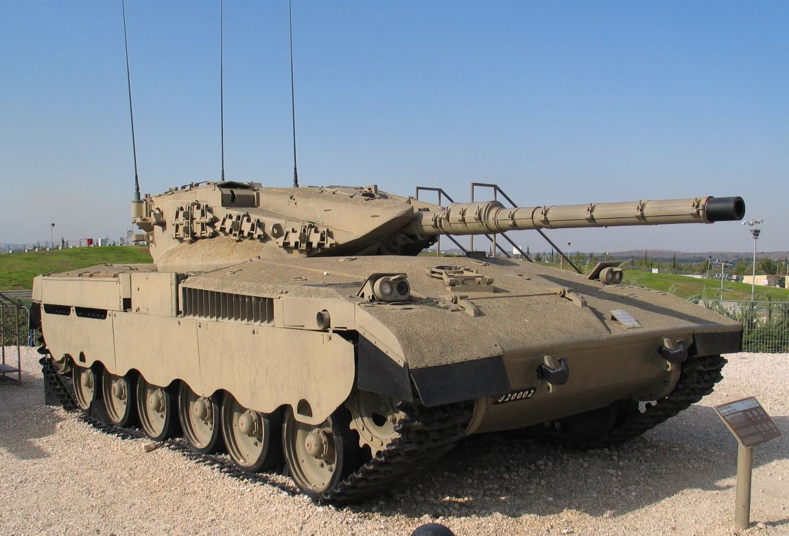 Description: Israeli Merkava Mk I MBT in Yad la-Shiryon Museum, Israel. 2005. Source: Photo by me, User:Bukvoed.